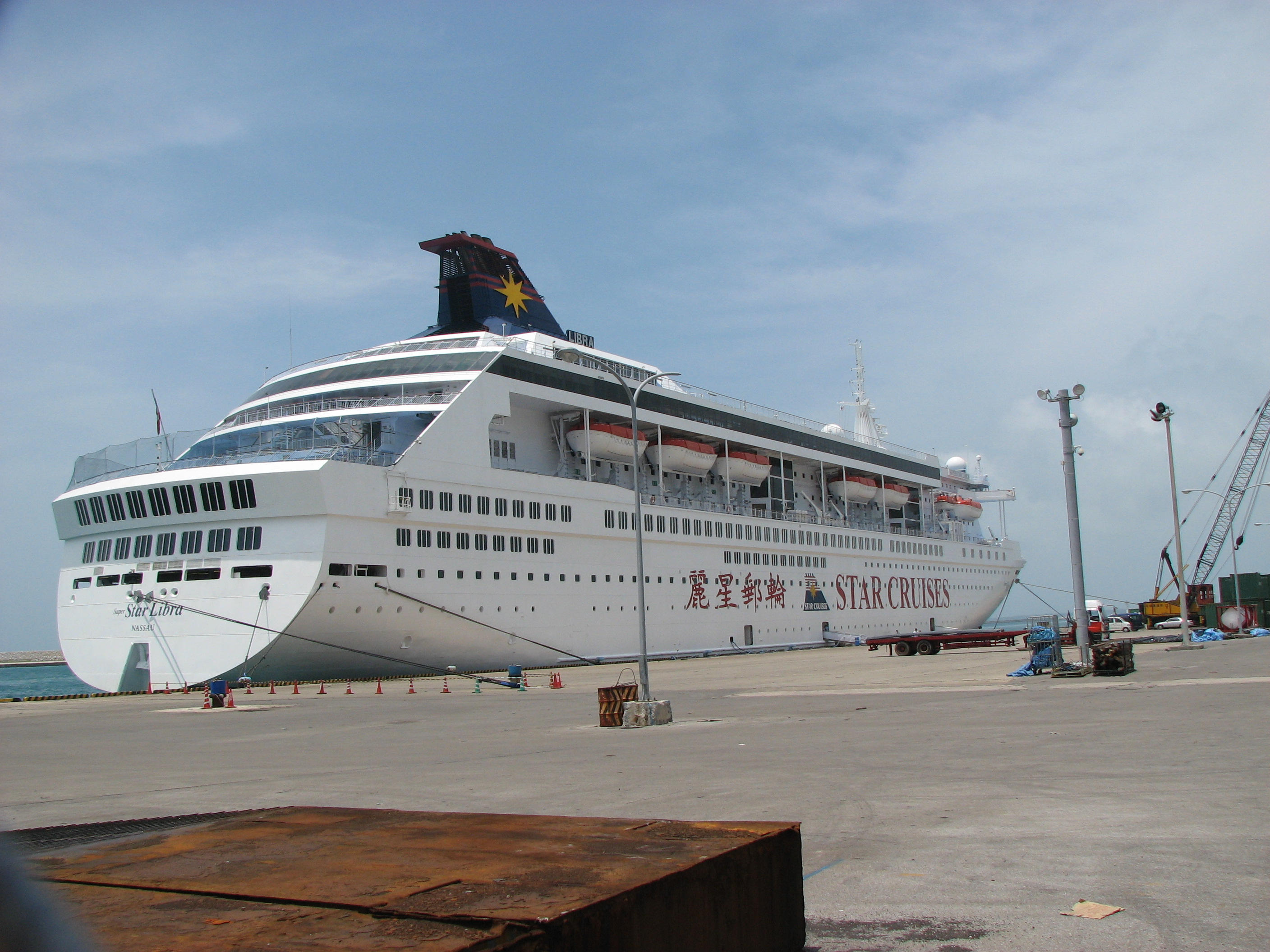 SuperStar Libra at Port of Ishigaki.